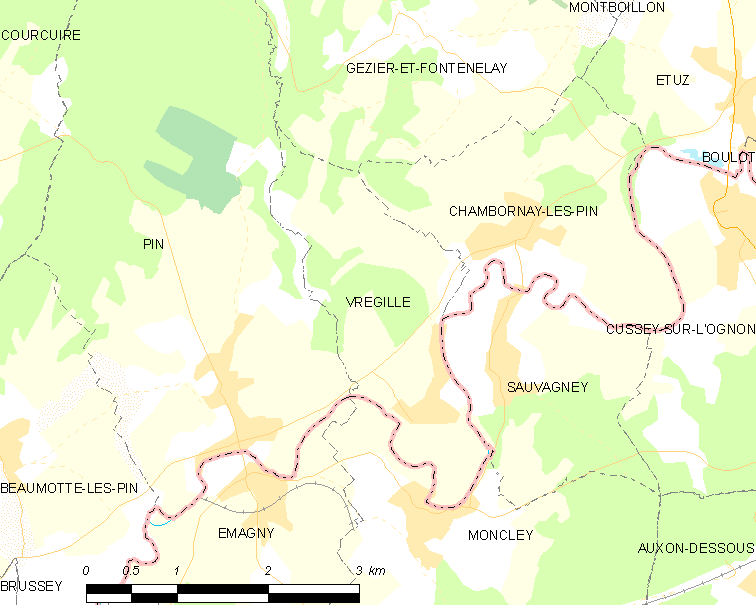 Map of French municipality